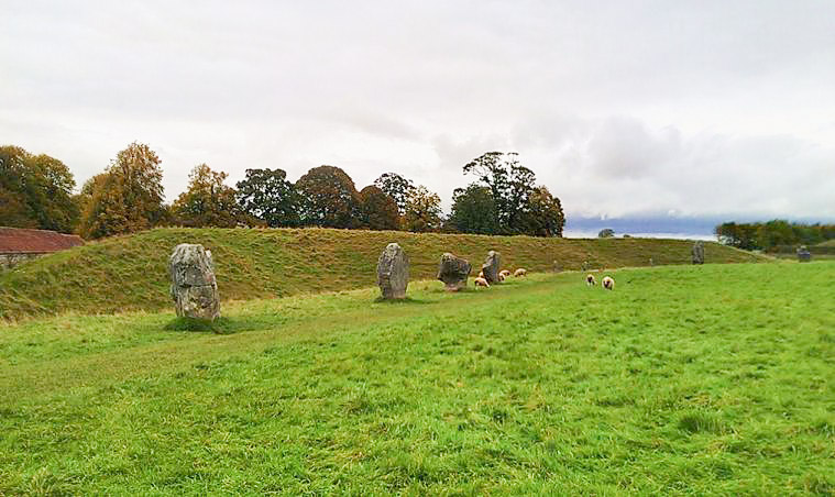 The northwest portion of the henge and stone circle at Avebury, a late prehistoric monument in the village of Avebury, Wiltshire.